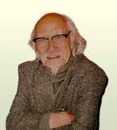 Japanese film director Seijun Suzuki